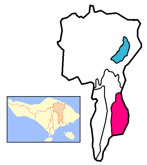 Tembuku in Bangli